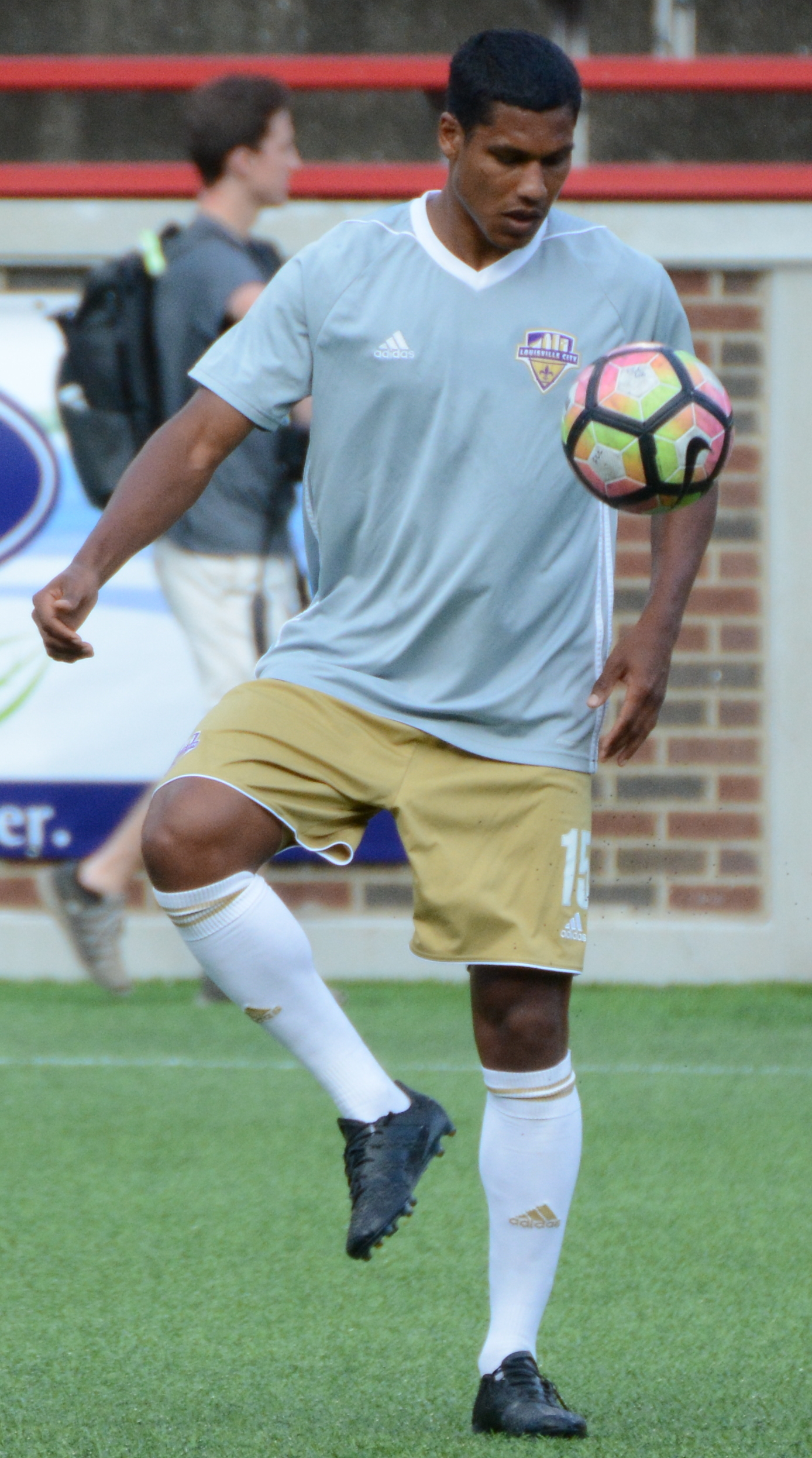 Sean Reynolds Taken at a Lamar Hunt U.S. Open Cup match between FC Cincinnati and Louisville City FC at Nippert Stadium in Cincinnati, Ohio on May 31, 2017.